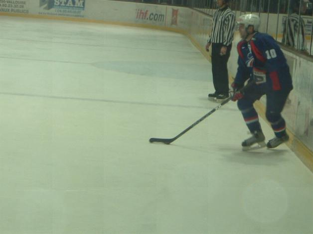 Laurent Meunier, ice hockey player with team France. Olympic qualification in Briançon, France, november 2004.